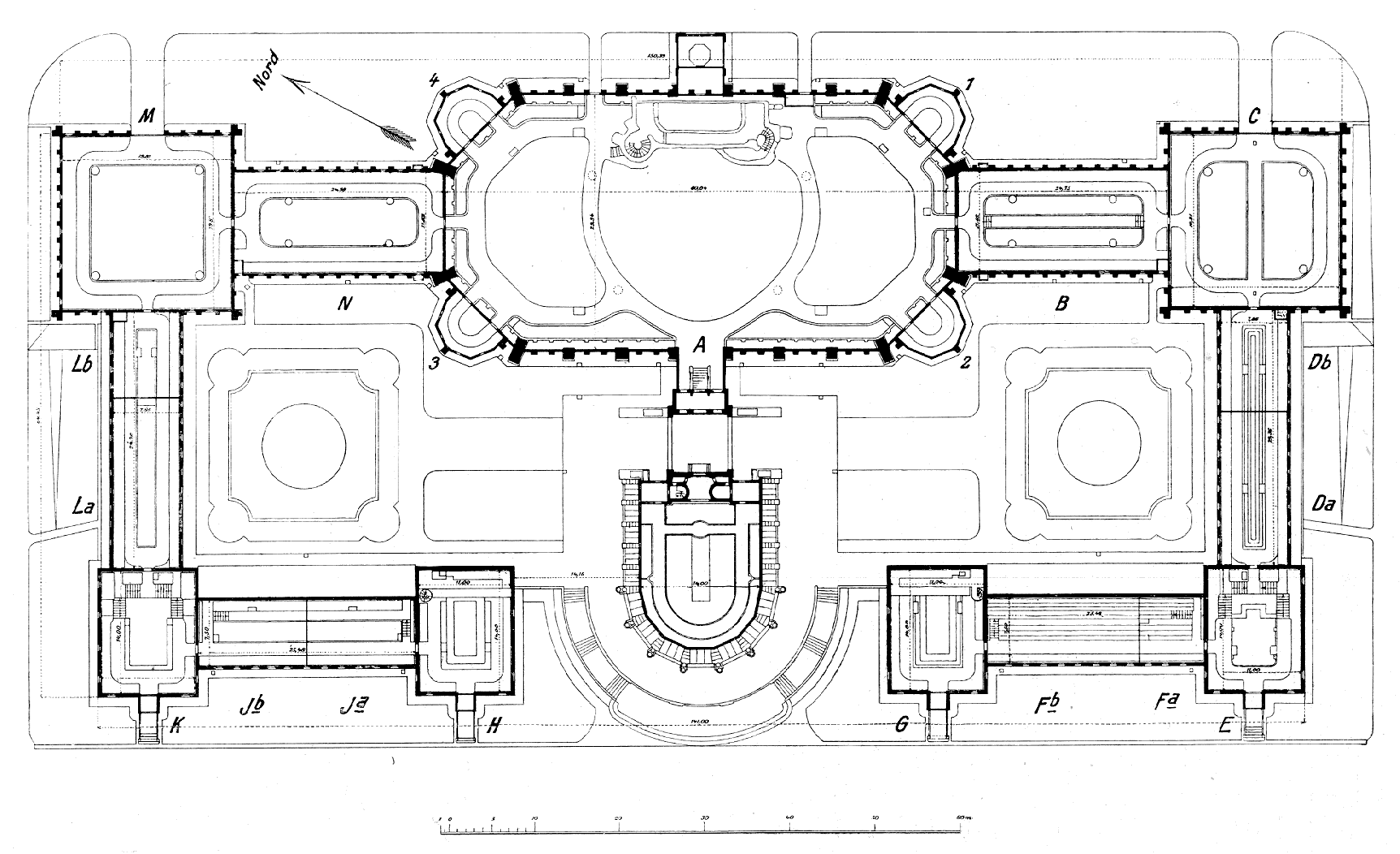 Botanical Garden in Berlin Native nameBotanischer Garten, Berlin-DahlemLocationBerlinCoordinates52° 27′ 18″ N, 13° 18′ 13″ E Established1899Website control VIAF: 122152673 LCCN: n80146344 GND: 2135864-3 WorldCat